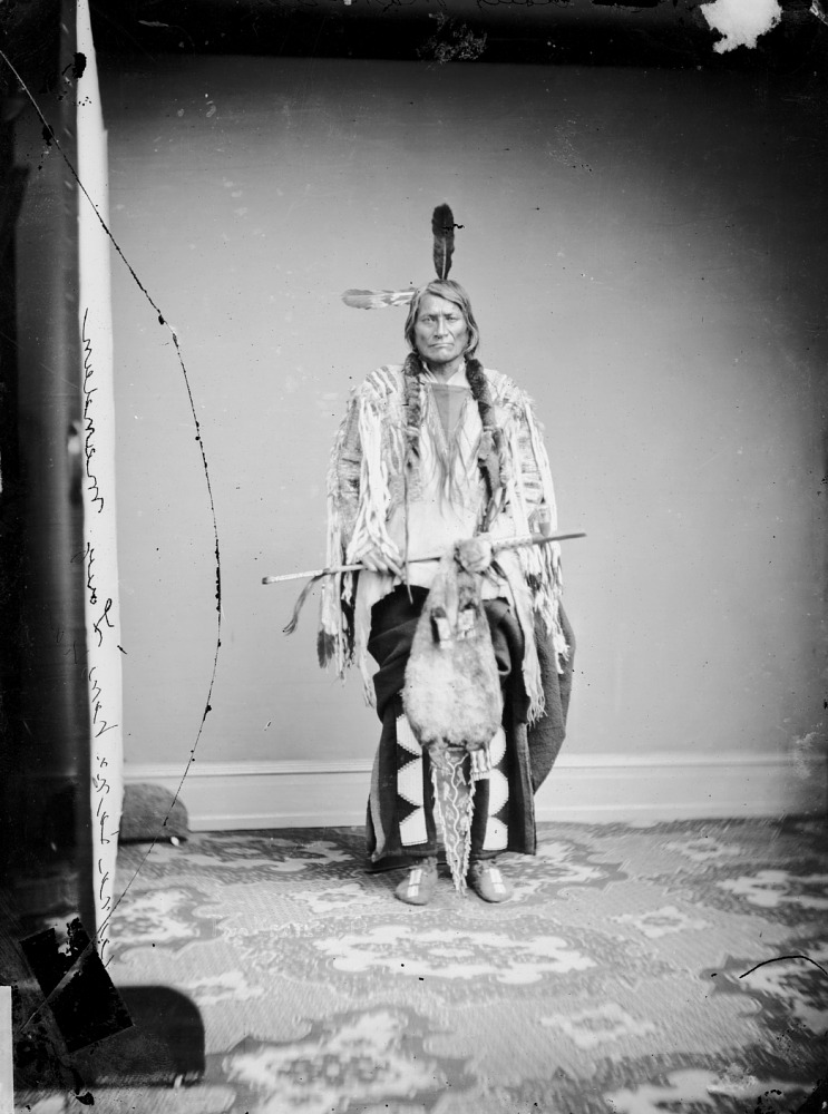 Glass Negatives of Indians (Collected by the Bureau of American Ethnology) 1850s-1930s